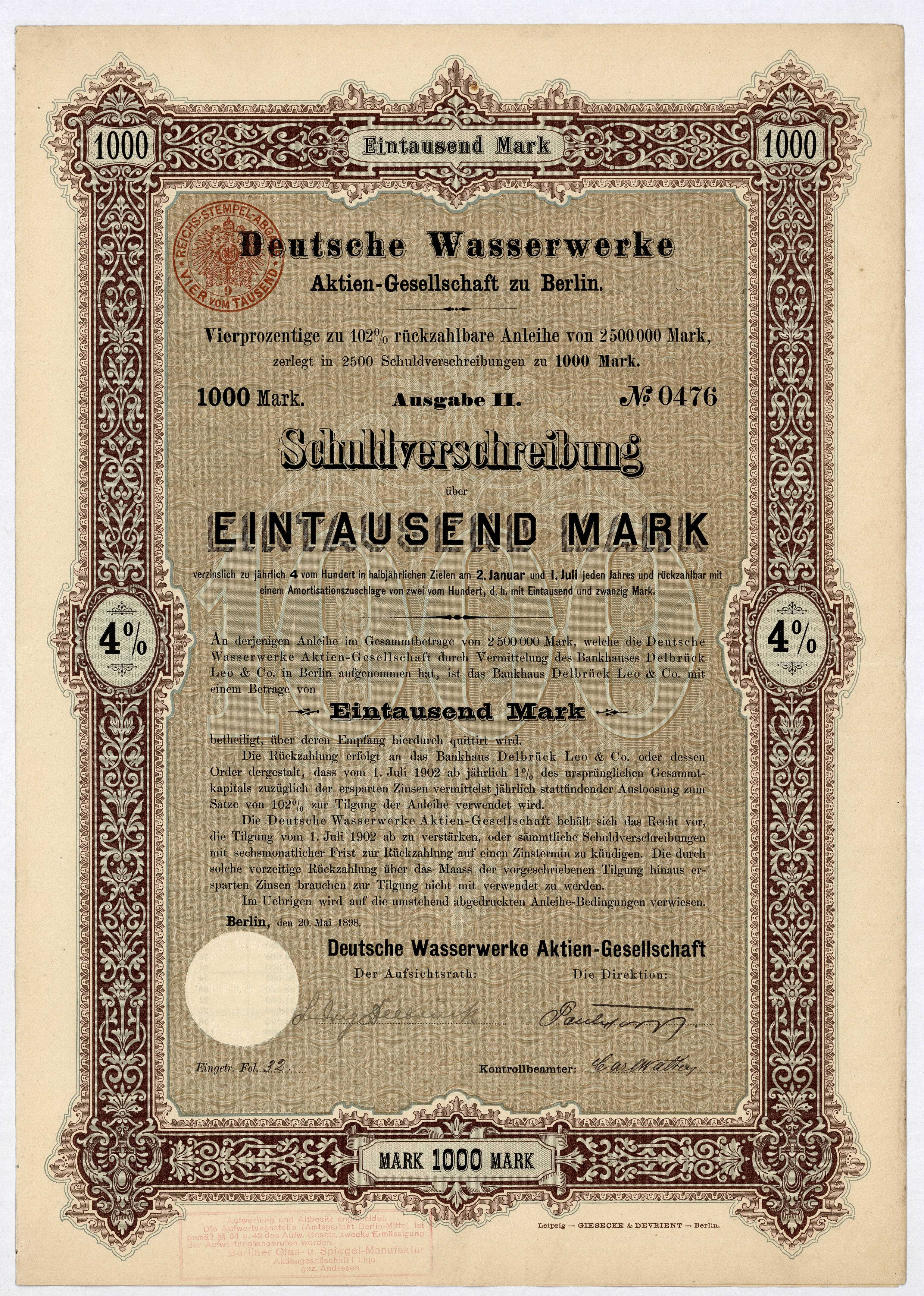 Bond of the Deutsche Wasserwerke AG, issued 25. May 1898